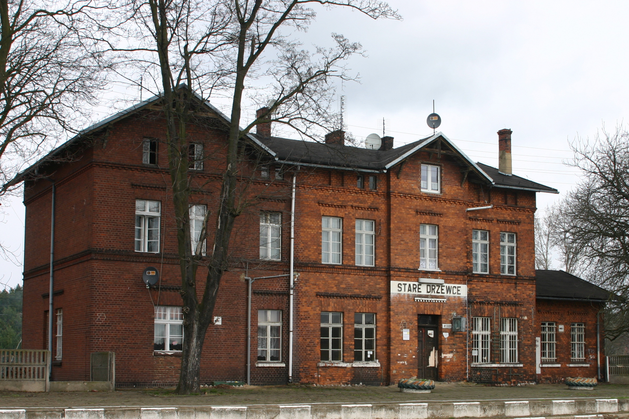 Stare Drzewce is a village in the administrative district of Gmina Szlichtyngowa, within Wschowa County, Lubusz Voivodeship, in western Poland. Object location51° 46′ 12″ N, 16° 13′ 24″ E